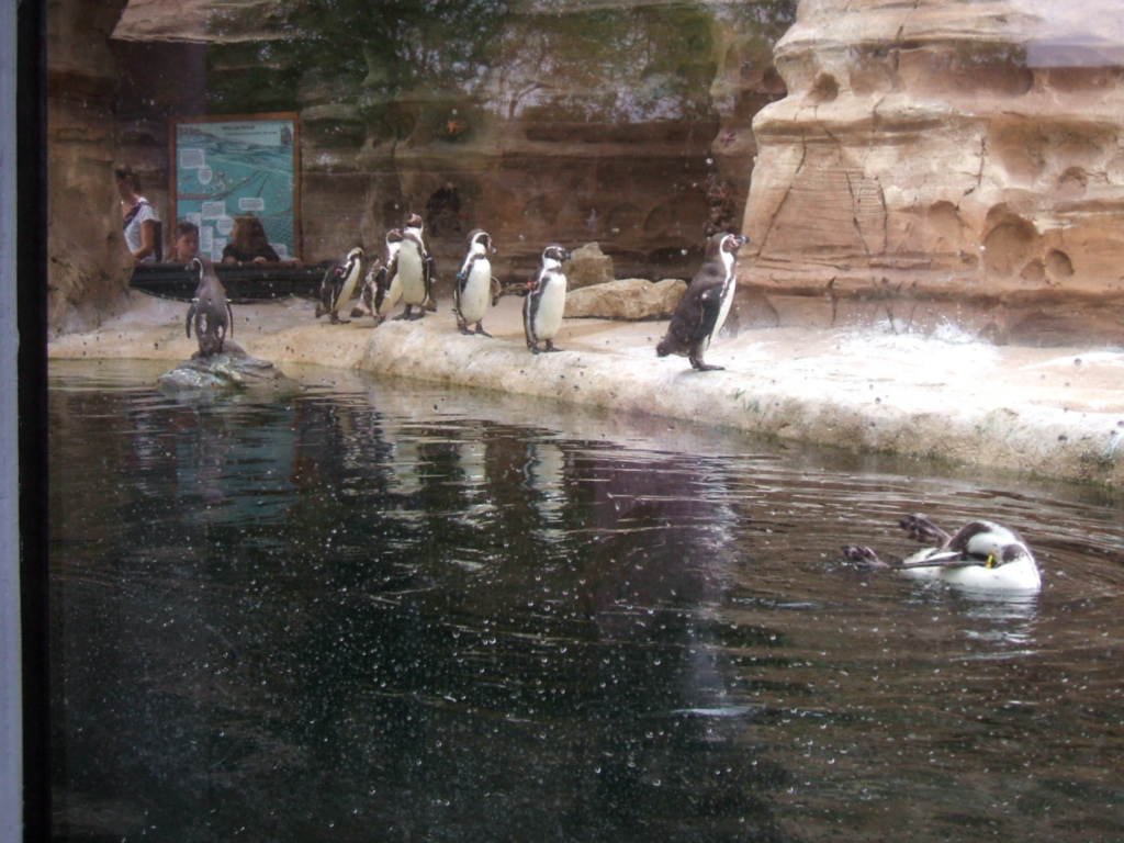 On a recent visit to Sedgwick County Zoo, I finally saw the newly opened Cessna Penguin Cove. They currently have 15 Humboldt penguins; about half of them are visible here, while the other half are swimming on the other side of the enclosure.